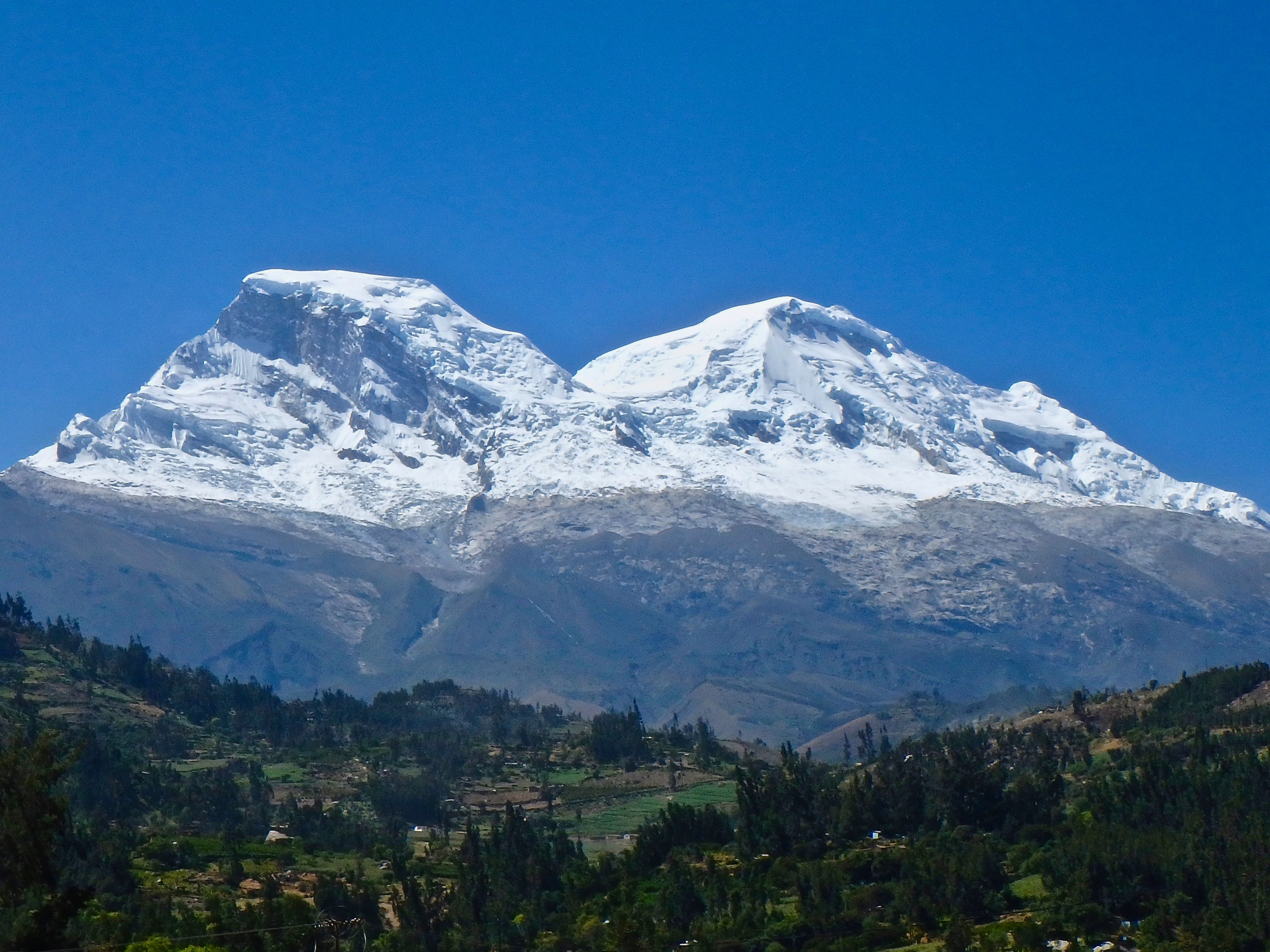 Huascarán as seen from Yungay